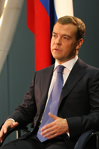 SOCHI. Interview with Euronews Television Channel.